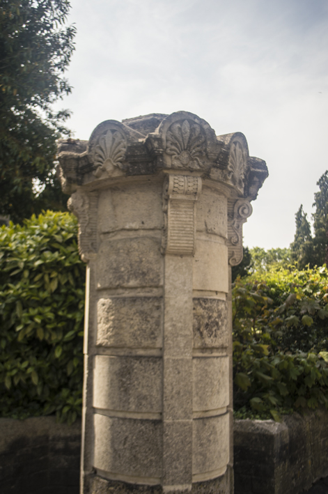 Thomas Bunn's pillar, marking one end of his proposed crescent, outside Frome Town Hall